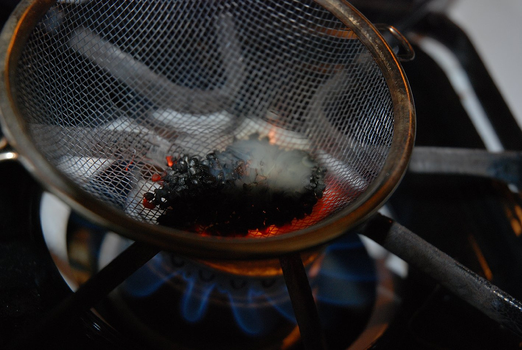 Peganum harmala seeds being heated over a gas flame as incense. In Turkish it is called Yüzerlik / üzerlik "the plant rue, Peganum harmala"; [al-]harmal (Arabic) = 'rue' ; or sipand (Persian اسپند / سپند / اسفند) "wild rue." [From: An etymological dictionary of pre-thirteenth century Turkish by Sir Gerard Clauson. Oxford : Oxford University Press, Clarendon Press, 1972 (page 988)]